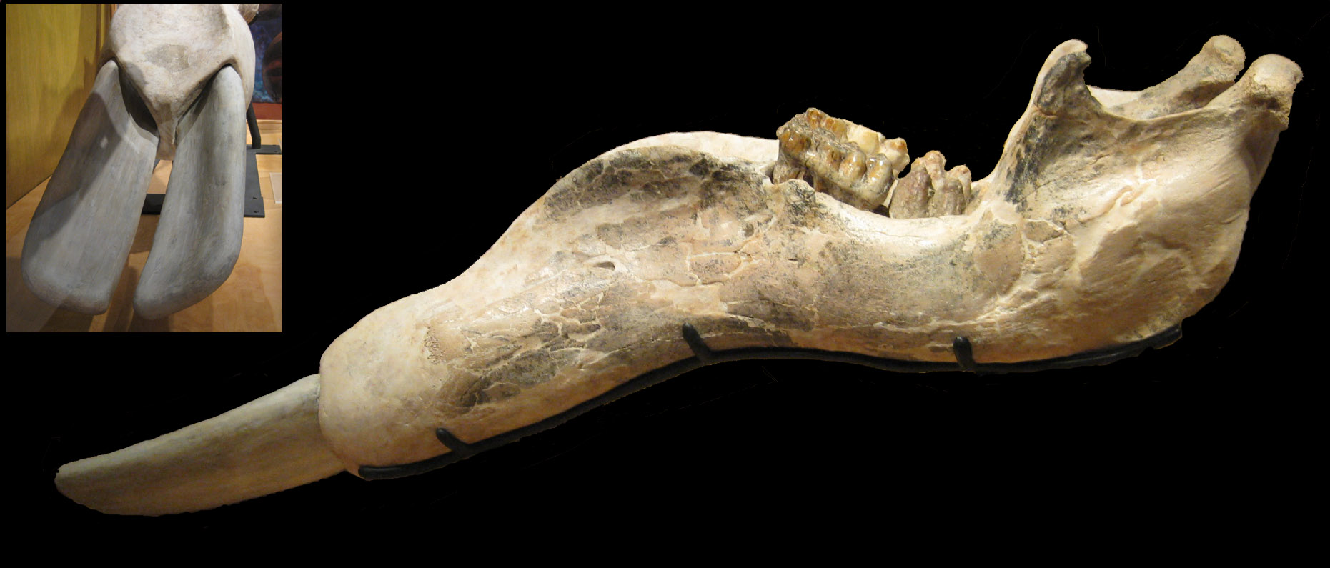 Mandible of Amebelodon britti on display at the State Museum of Pennsylvania